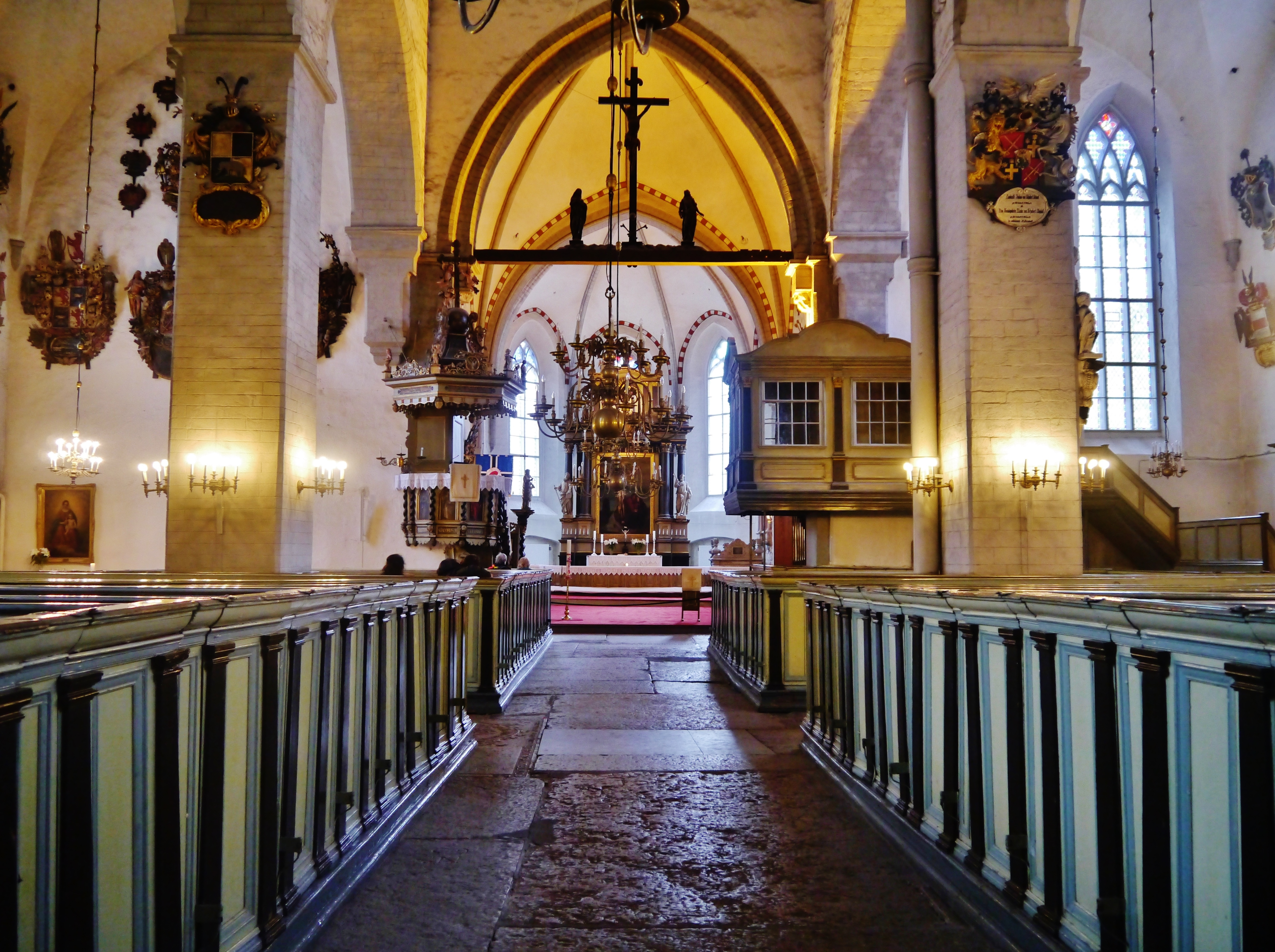 Nave of the Cathedral St. Mary, Tallinn, Estonia